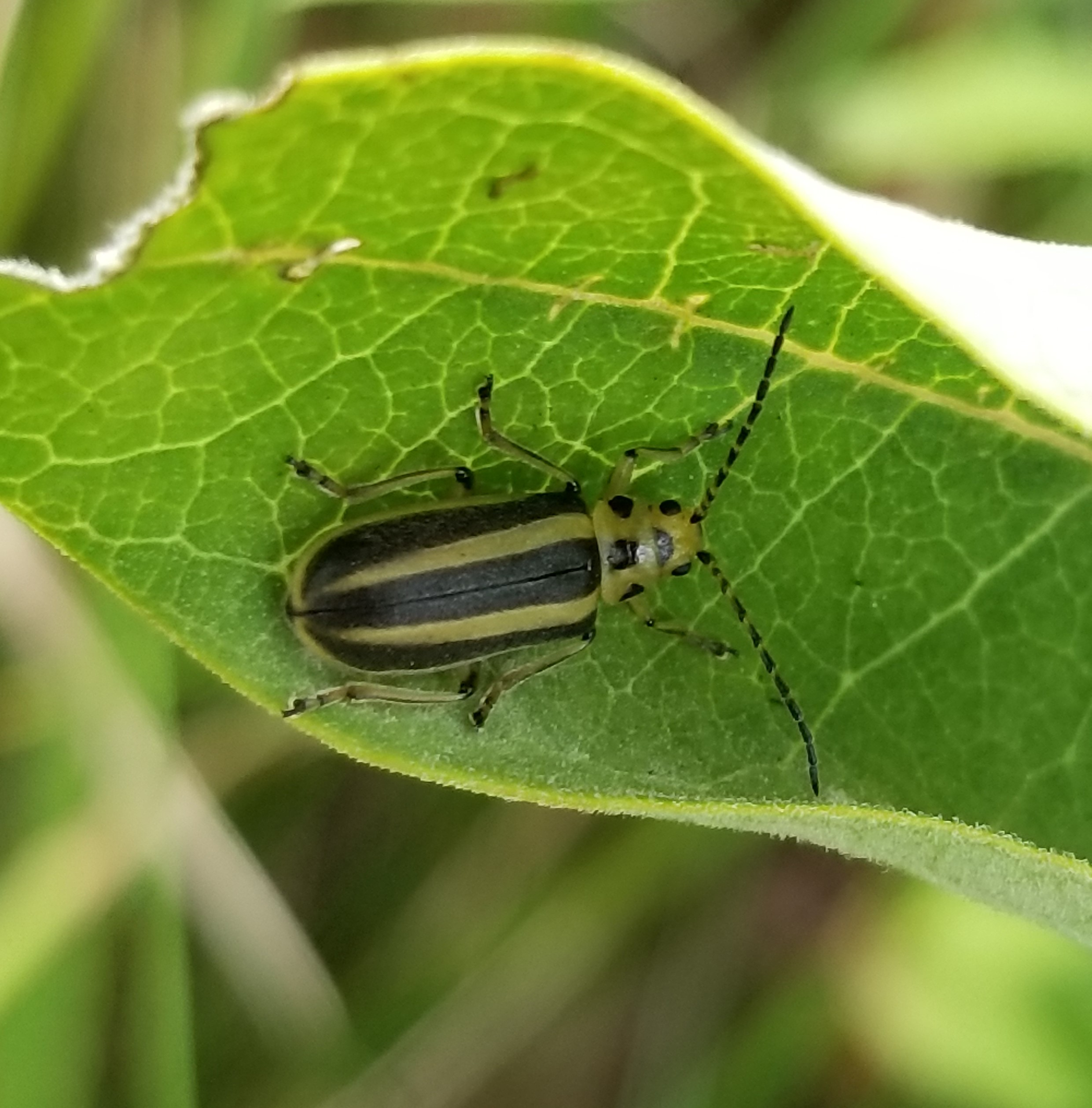 Photographed in Toronto, Canada on July 16/2019